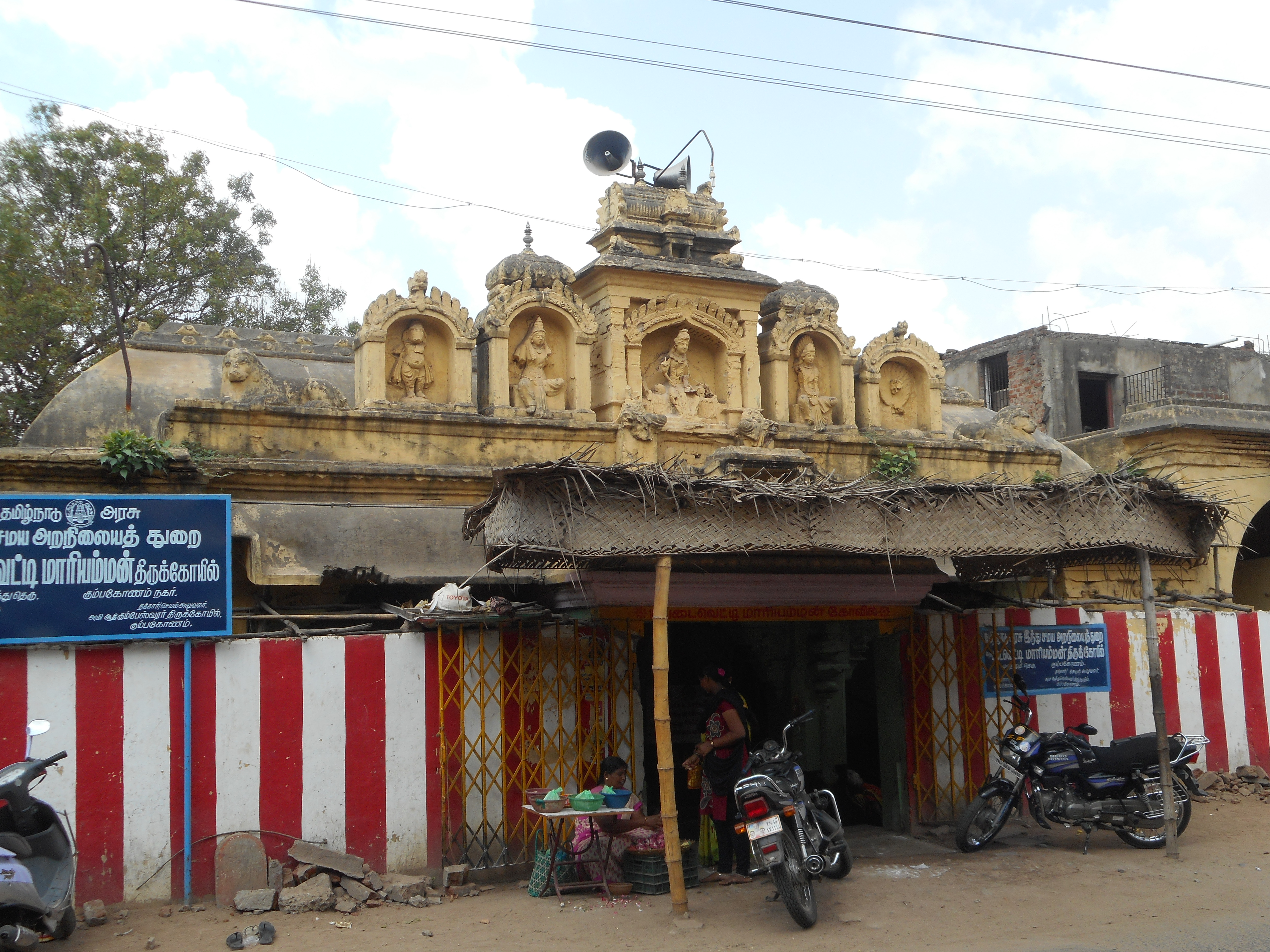 கும்பகோணம் படைவெட்டி மாரியம்மன் கோயில் Kumbakonam Padaivettimariamman temple